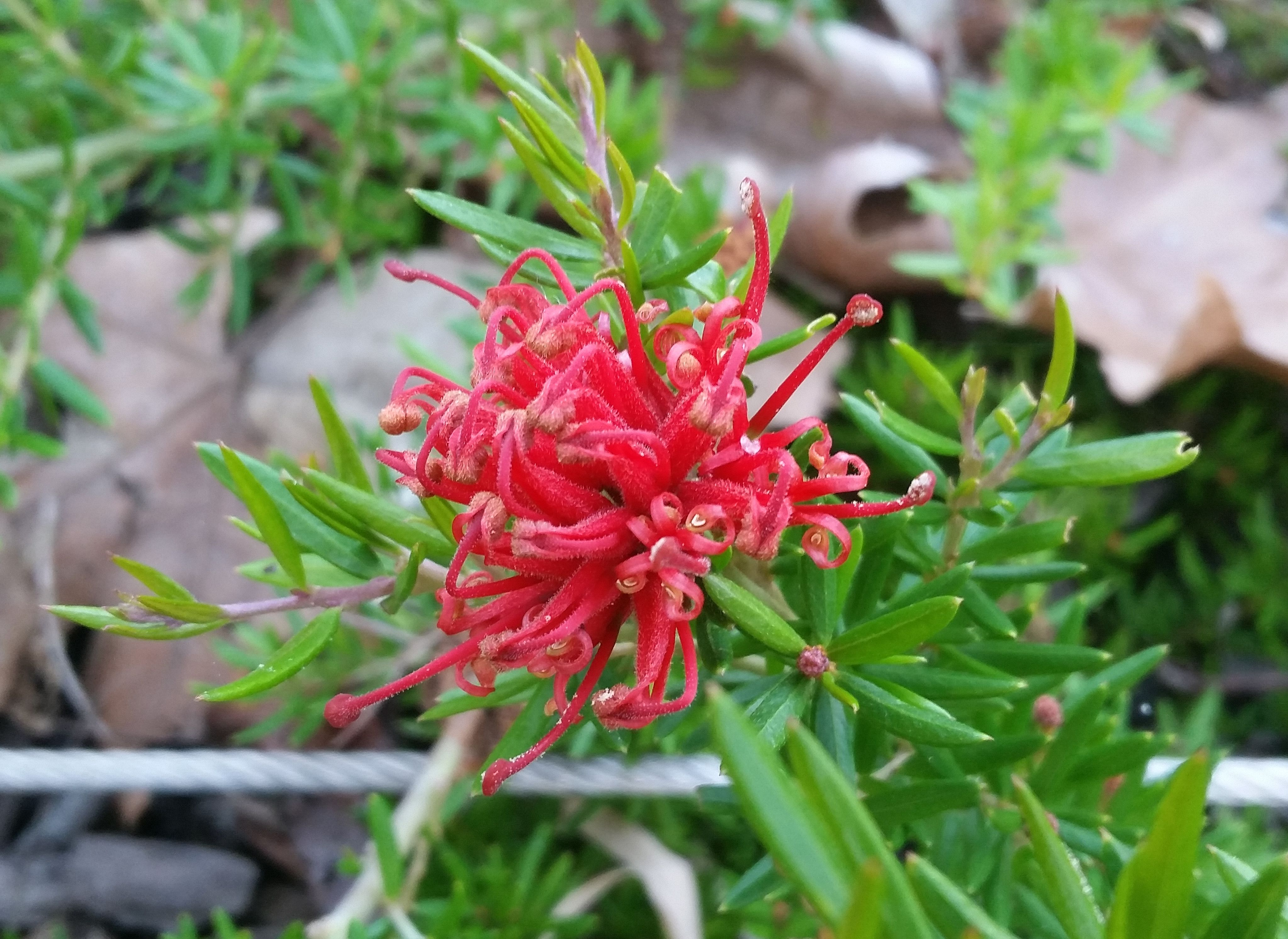 Grevillea 'New Blood', Royal Botanic Gardens Sydney, Australia